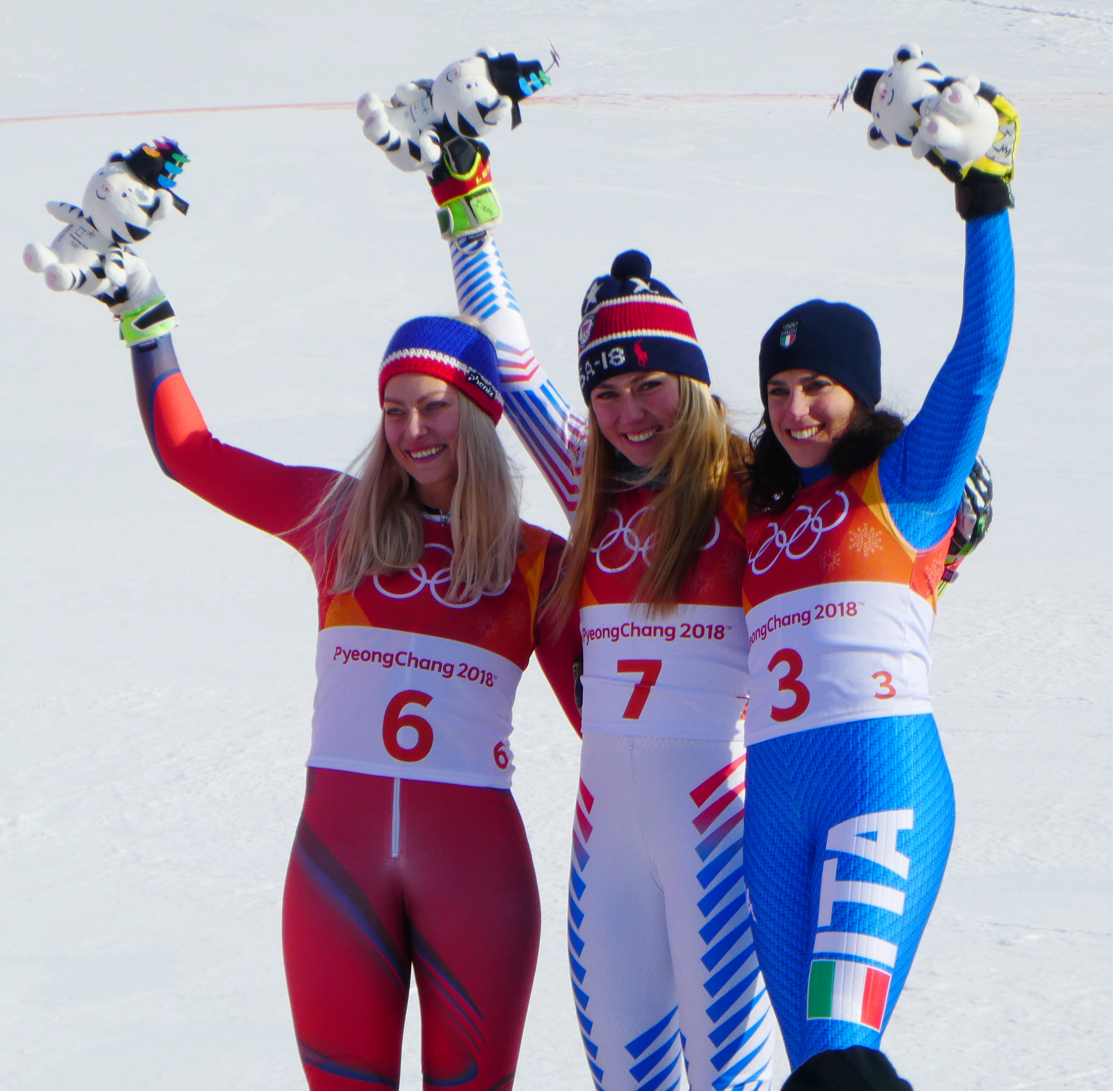 Yongpyeong, site du ski alpin, slalom géant féminin Ragnhild Mowinckel, of Norway (silver) at left, Gold is Mikaela Shiffrinof USA in centre and bronze to Federica Brignone of Italy